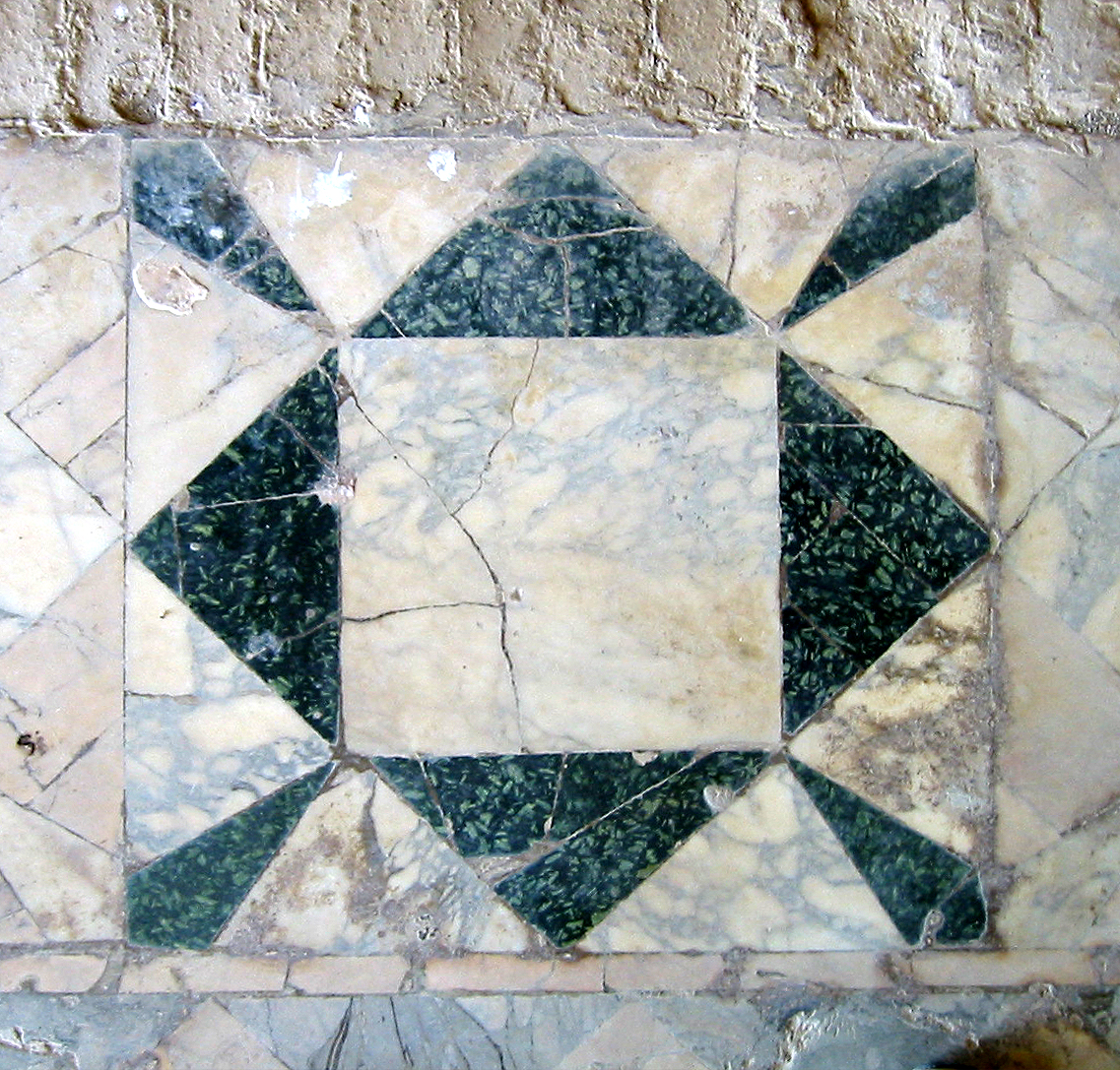 Opus sectile at the Terme Taurine near Civitavecchia (the roman Cantumcellae) in Lazio, Italy